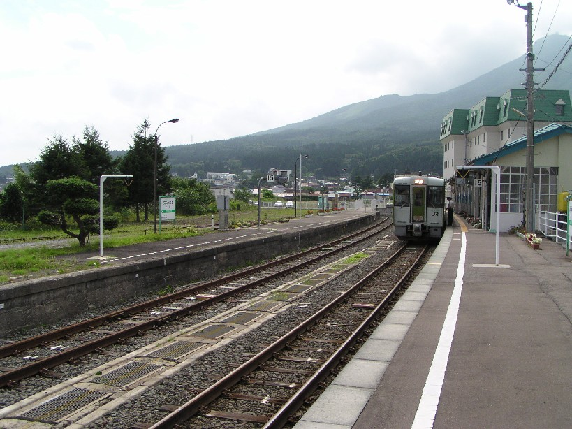 Ōminato Station platforms, on the Ōminato Line, Mutsu, Aomorija:大湊駅